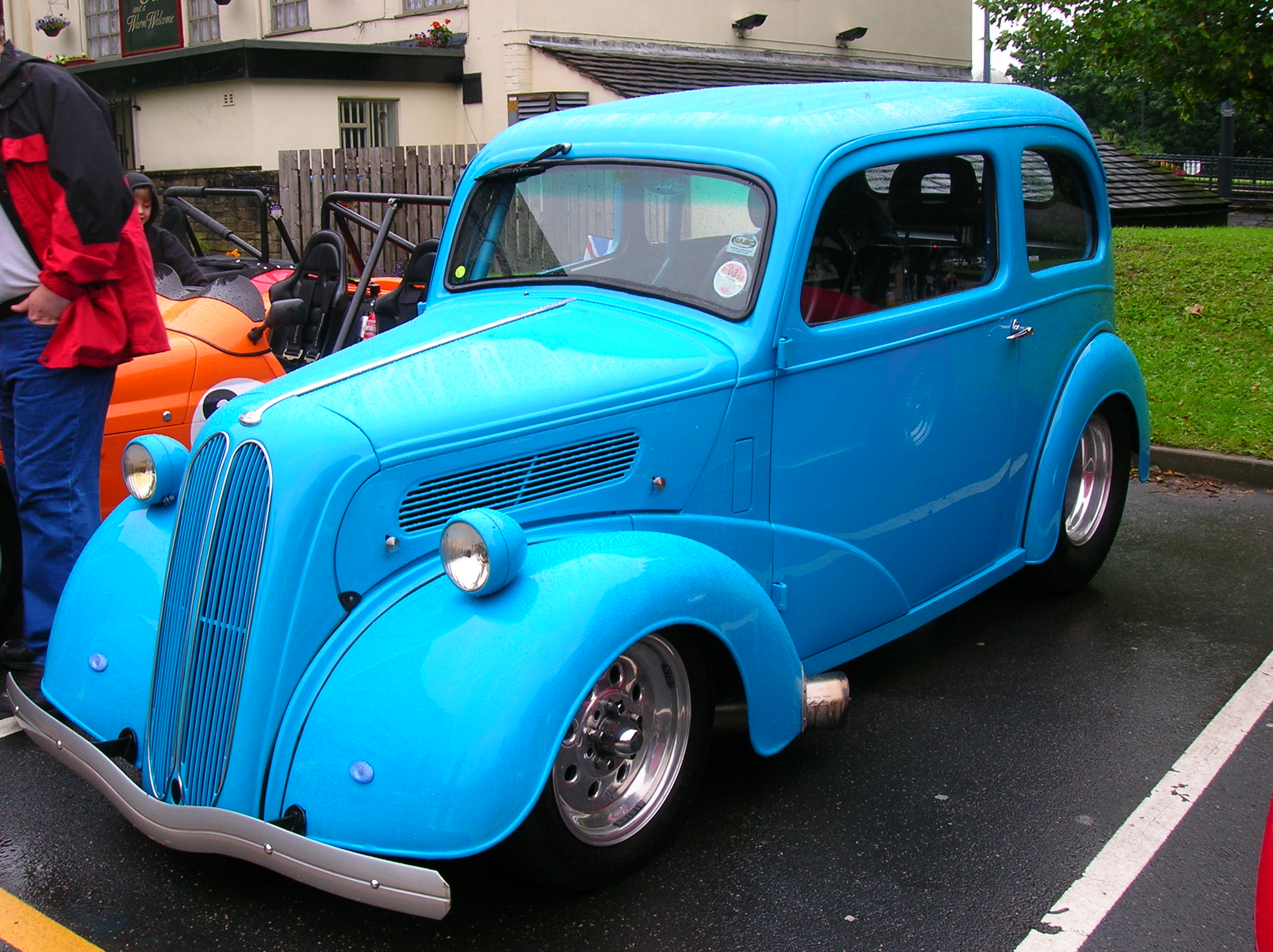 Ford Popular 103E hot rod.